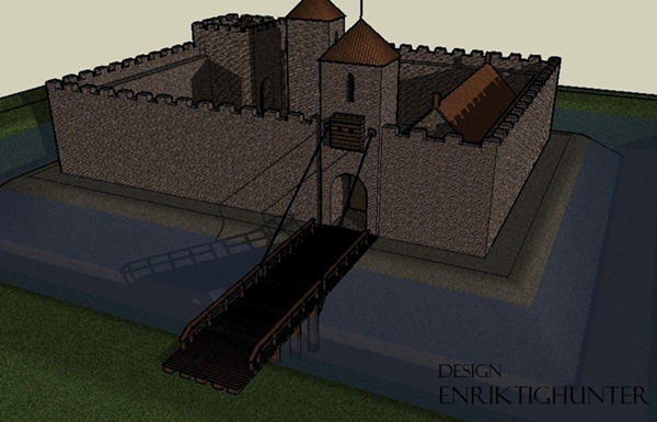 Lindholmen borg, digital model based on historical pictures